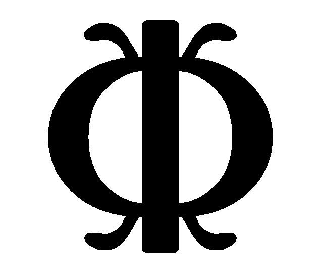 Wawa aba is one of the Adinkra symbols. It signifies hardiness, toughness and perseverance (see W. Bruce Willis, The Adinkra Dictionary, pp. 196-7).